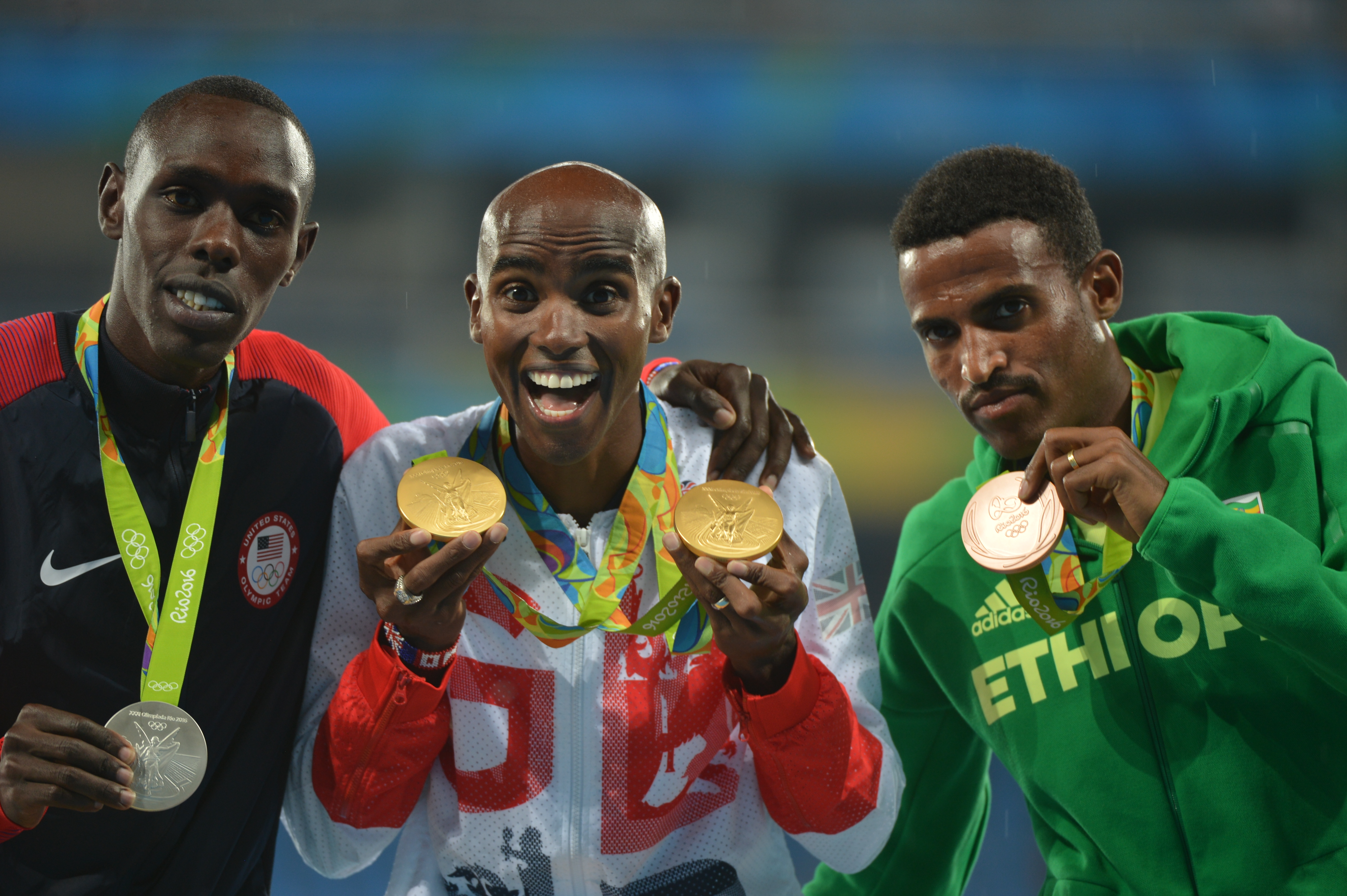 A scene from the Rio Olympic Games men's 5,000-meter run medal ceremony for silver medalist Spc. Paul Chelimo of the U.S. Army World Class Athlete Program, gold medalist Mo Farah of Great Britain and bronze medalist Hagos Gebrhiwet of Ethiopia on Aug. 20 at Olympic Stadium in Rio de Janeiro. U.S. Army photo by Tim Hipps, IMCOM Public Affairs